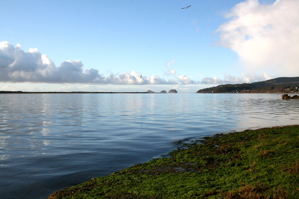 Netarts Bay, a bay of the Pacific Ocean in Tillamook County, Oregon, United States